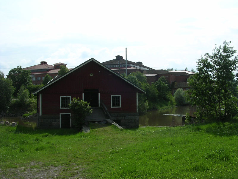 Vesikosken mylly (Vesikoski mill) in Loimaa Finland